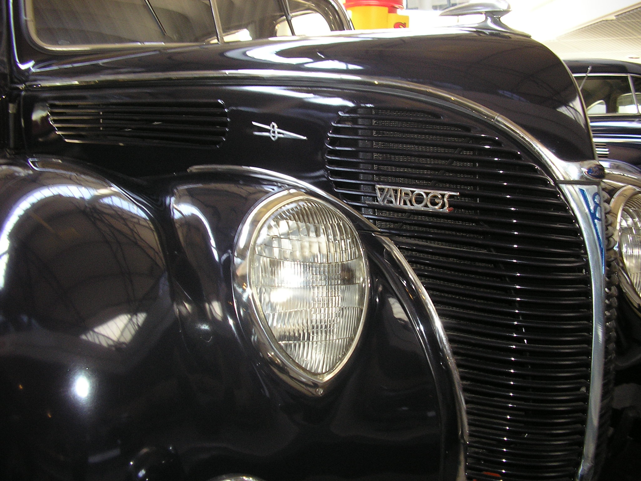 A 1938 Ford-Vairogs V8 "De Luxe" mod. 81A. The side valve V8 has a capacity of 3621 cc and gives 85 hp and a top speed of 130 km/h. The total weight of the car is 1493 kg.